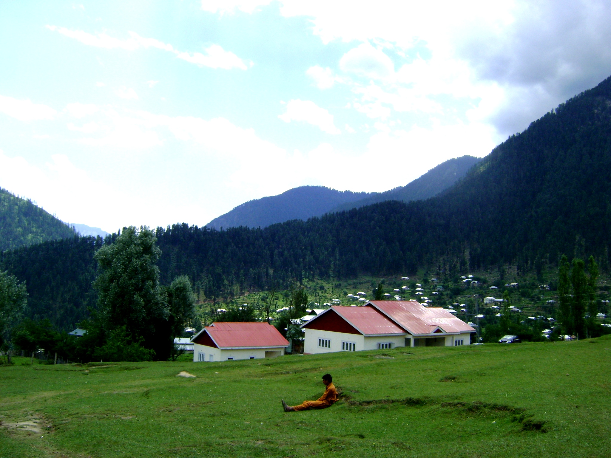 A local boy resting in the Upper Neelum valley region of Azad Kashmir in Pakistan